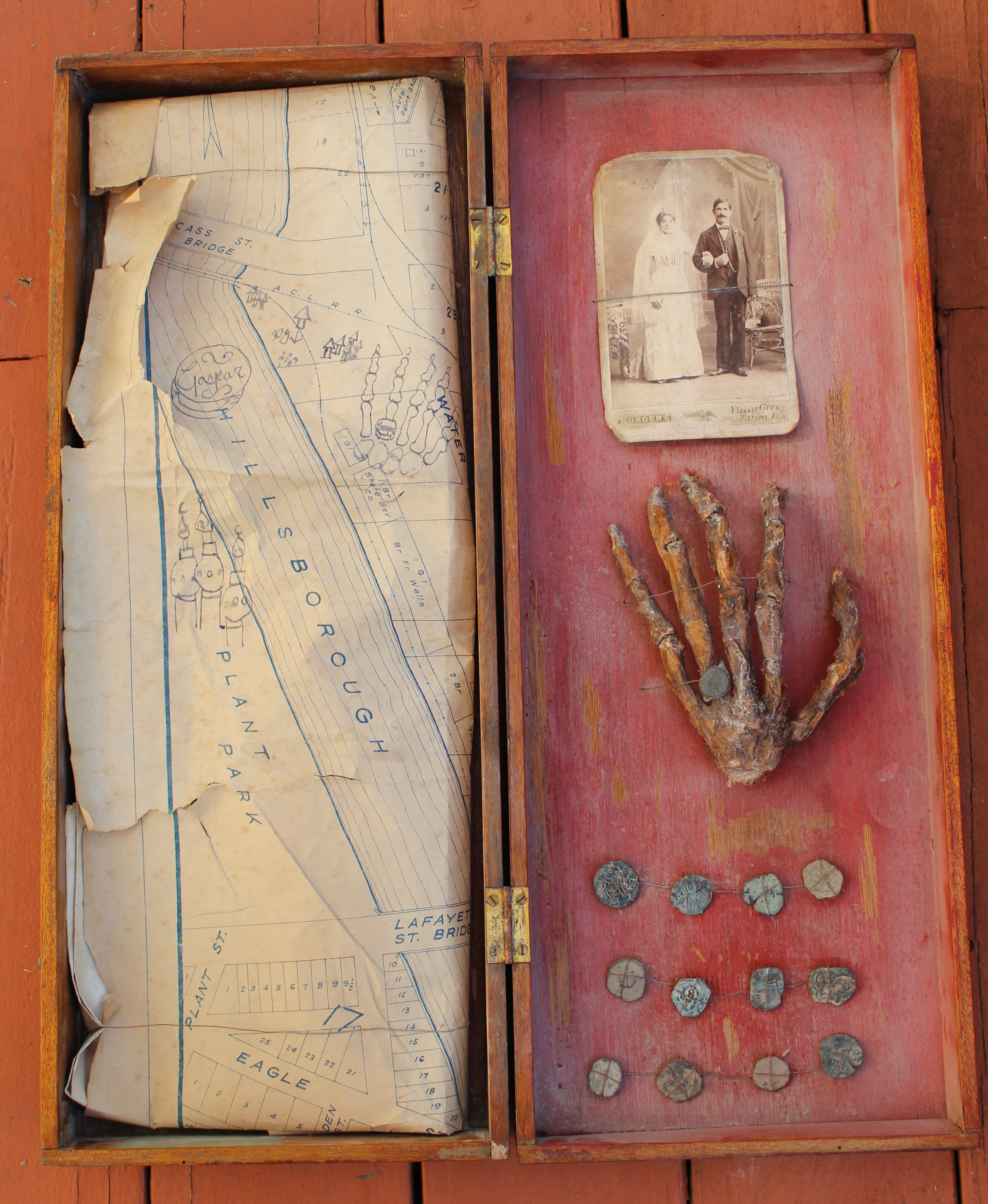 Box allegedly containing Gaspar's hand, macuquinas or "pirate cobb" and an early blueprint of Tampa with hand made embellishments .